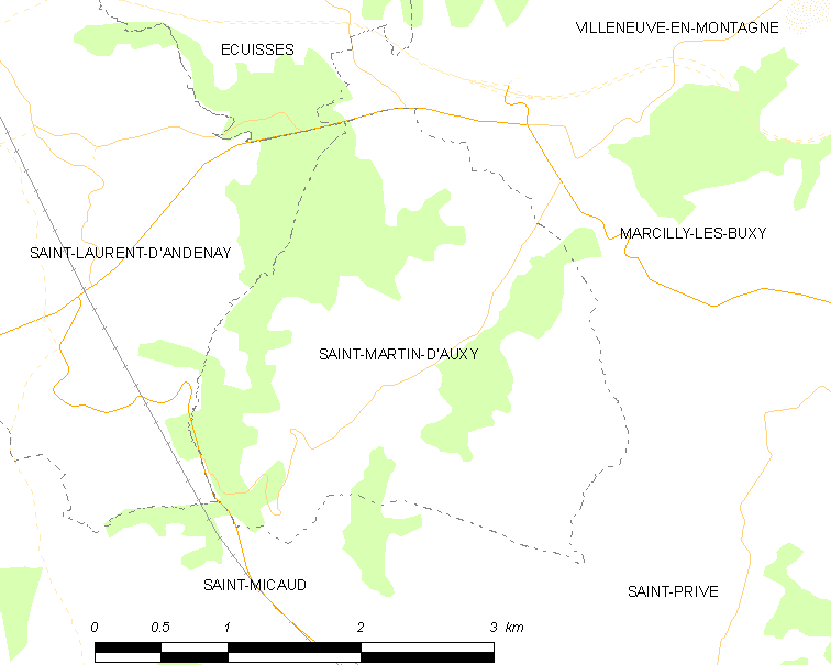 Map of French municipality